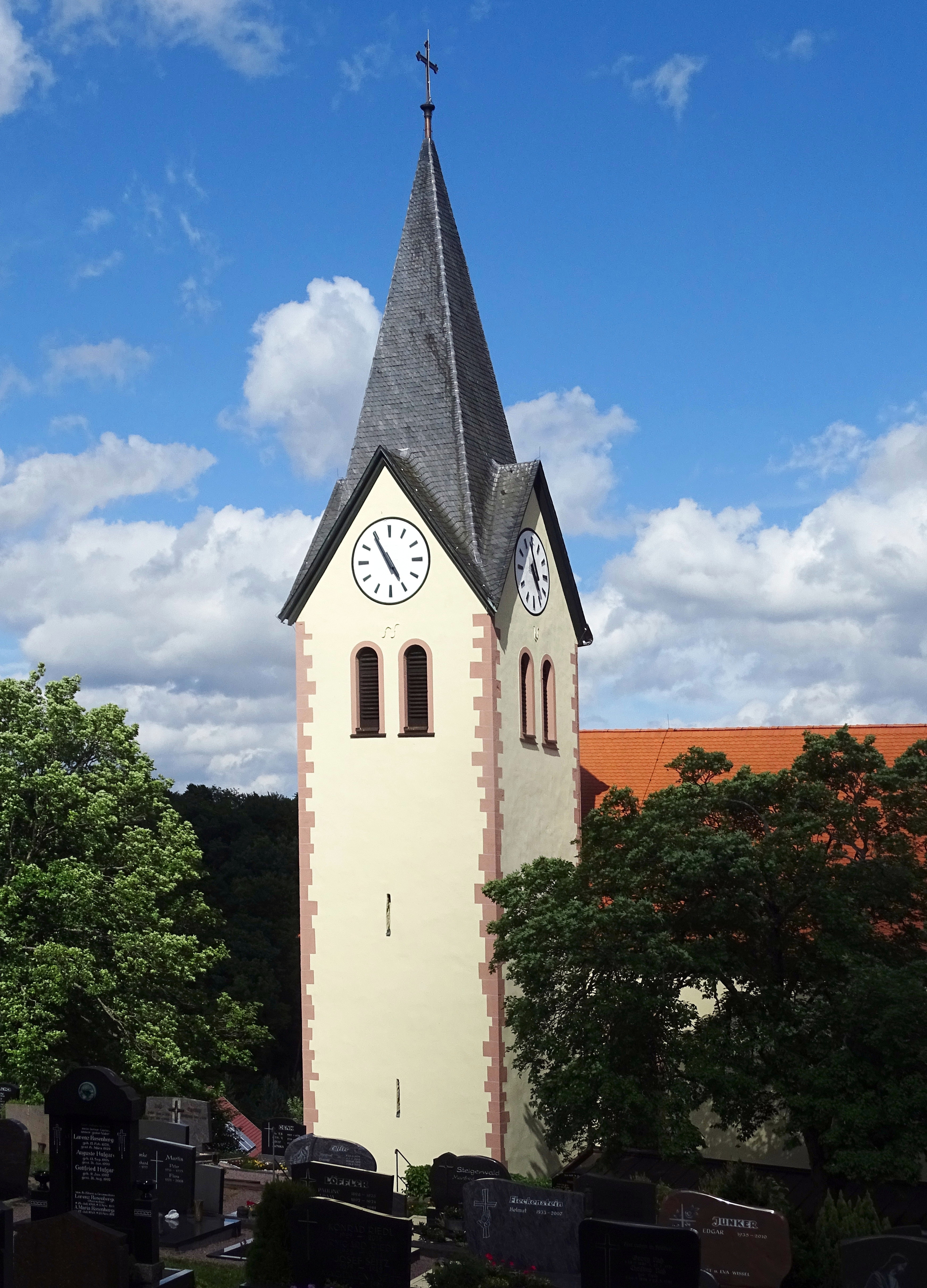 Church tower of the catholic parish church of St. Lambertus and St. Sebastian in Krombach